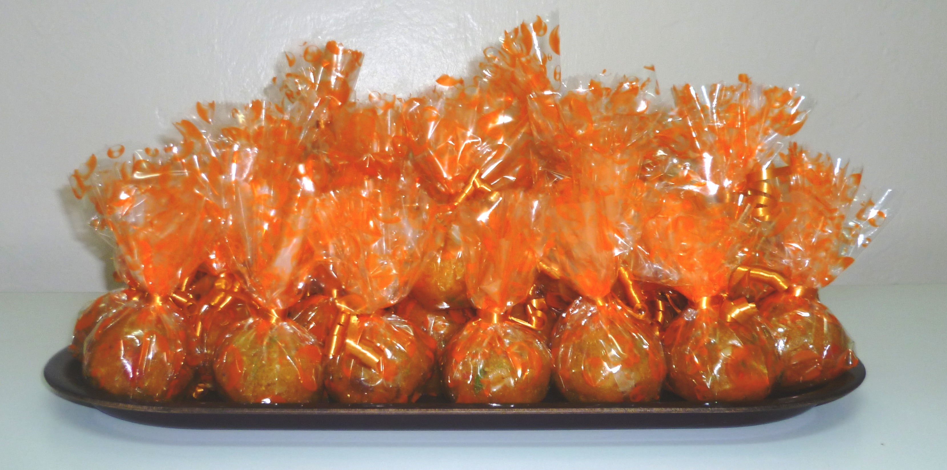 Laddu packed for a wedding